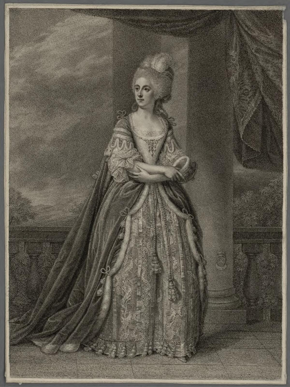 A portrait from the Welsh Portrait Collection at the National Library of Wales. Depicted person: Charlotte Jane Stuart, Marchioness of Bute